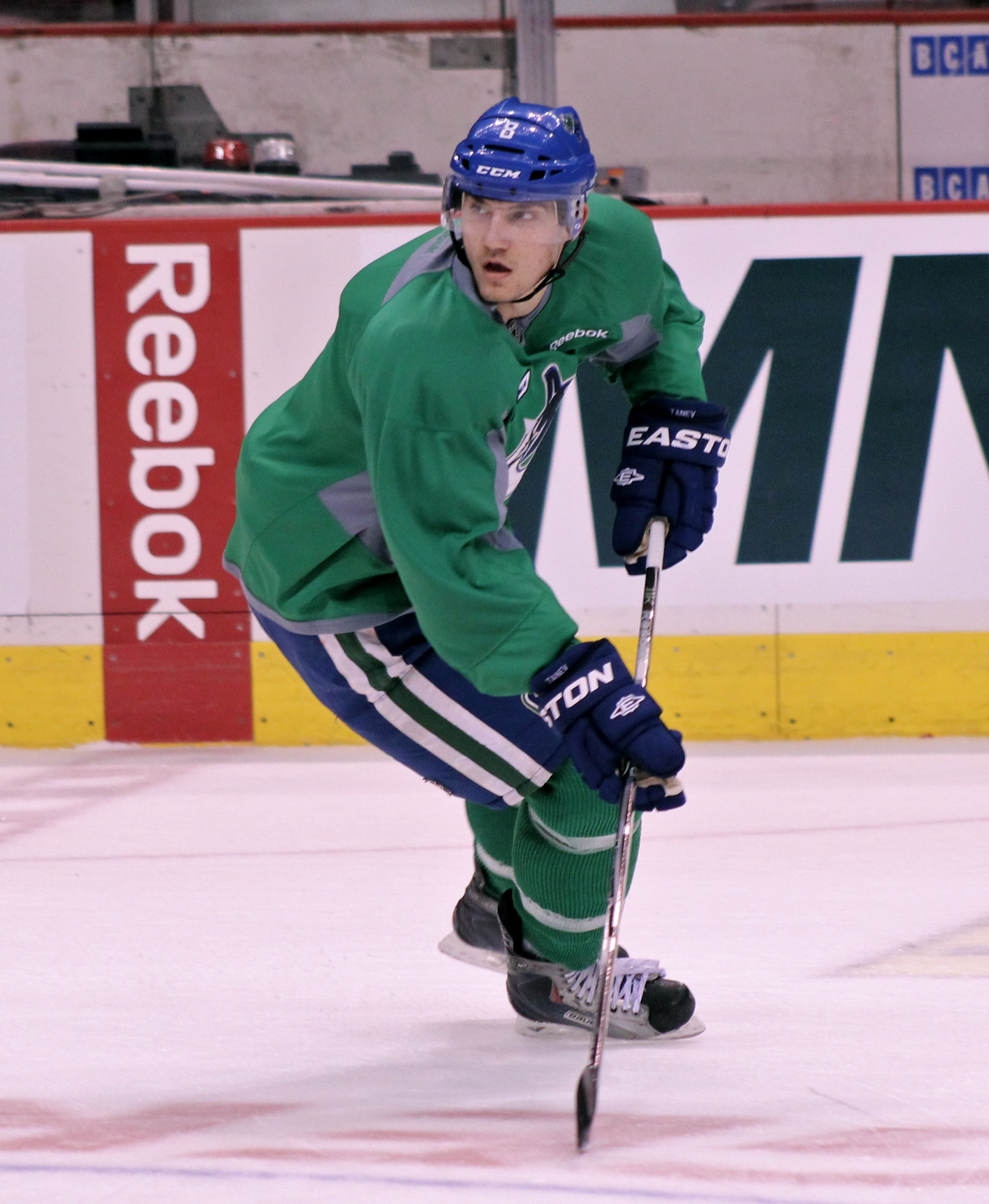 Vancouver Canucks Practice